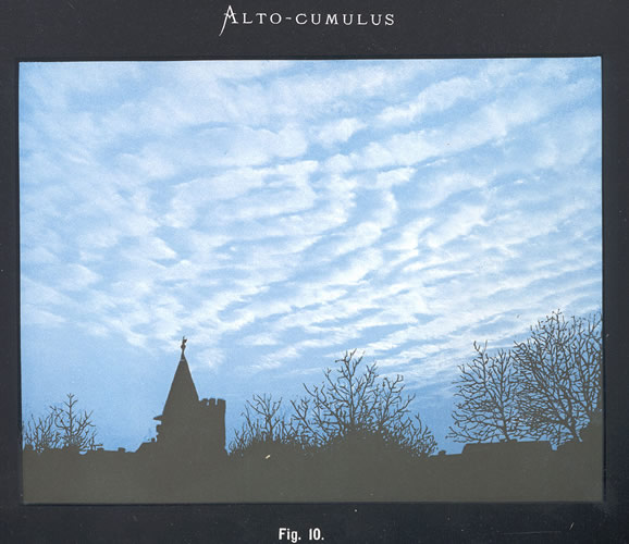 International Cloud Atlas 1896, figure 10: Alto-cumulus